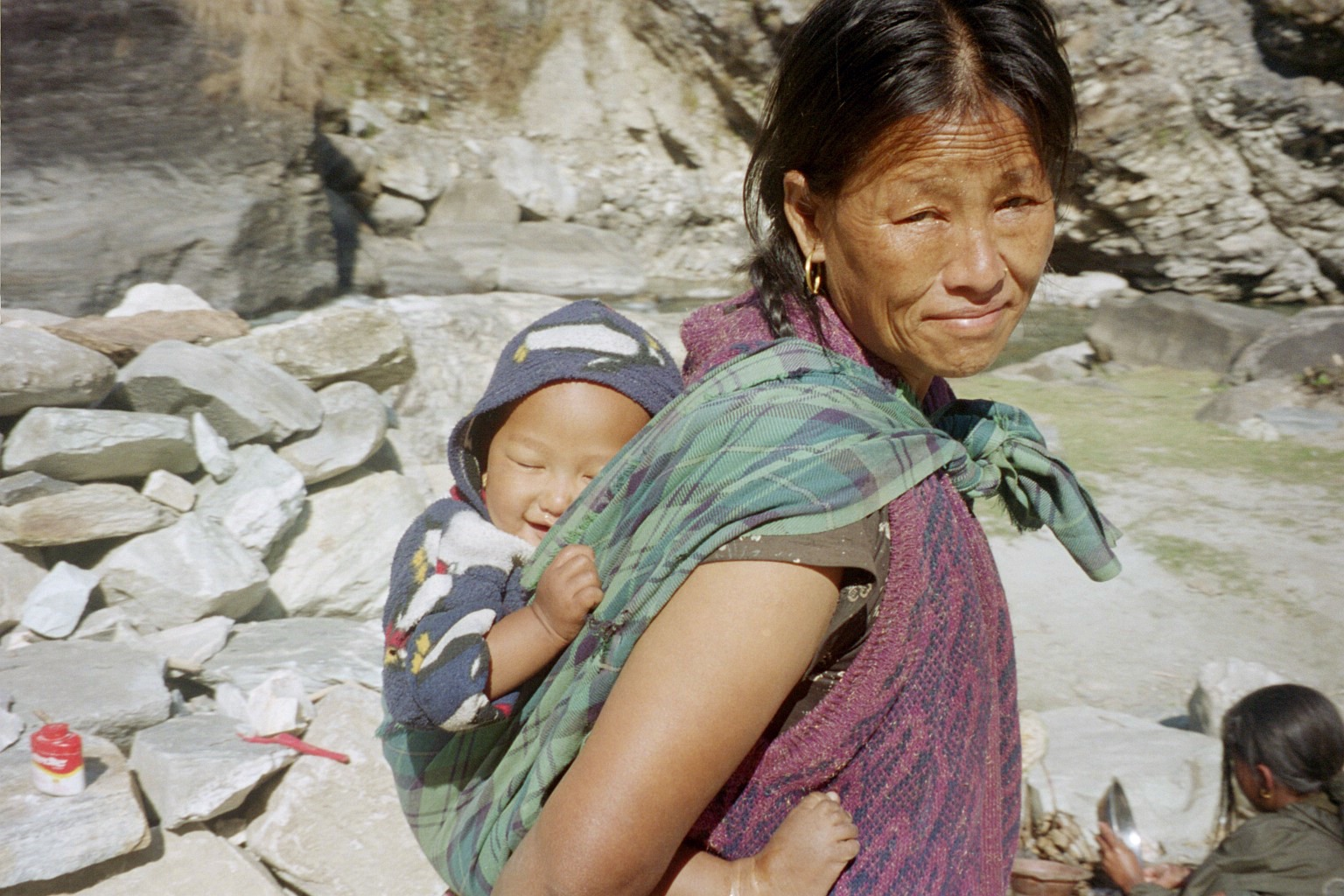 A Nepalese woman and her infant child.